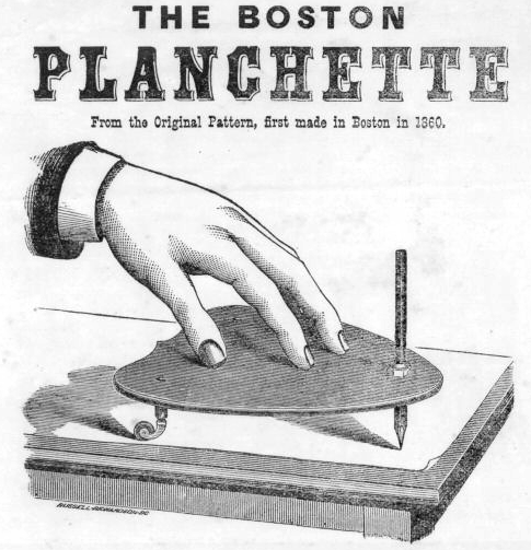 "The Boston planchette ... first made in Boston in 1860 ... For sale by G.W. Cottrell, 36 Cornhill, Boston."